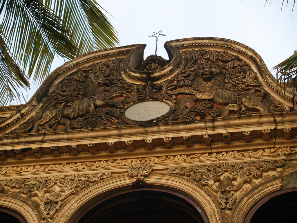 Venkata Bhavanam is the main palace building in Domakonda Fort. Details of artwork on Facade. In the oval plaque, buildings name is inscribed in Urdu and Telugu.